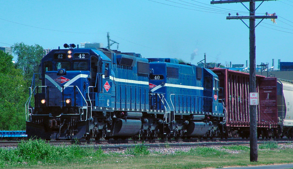 Progressive Rail train passes through Northfield, MN.